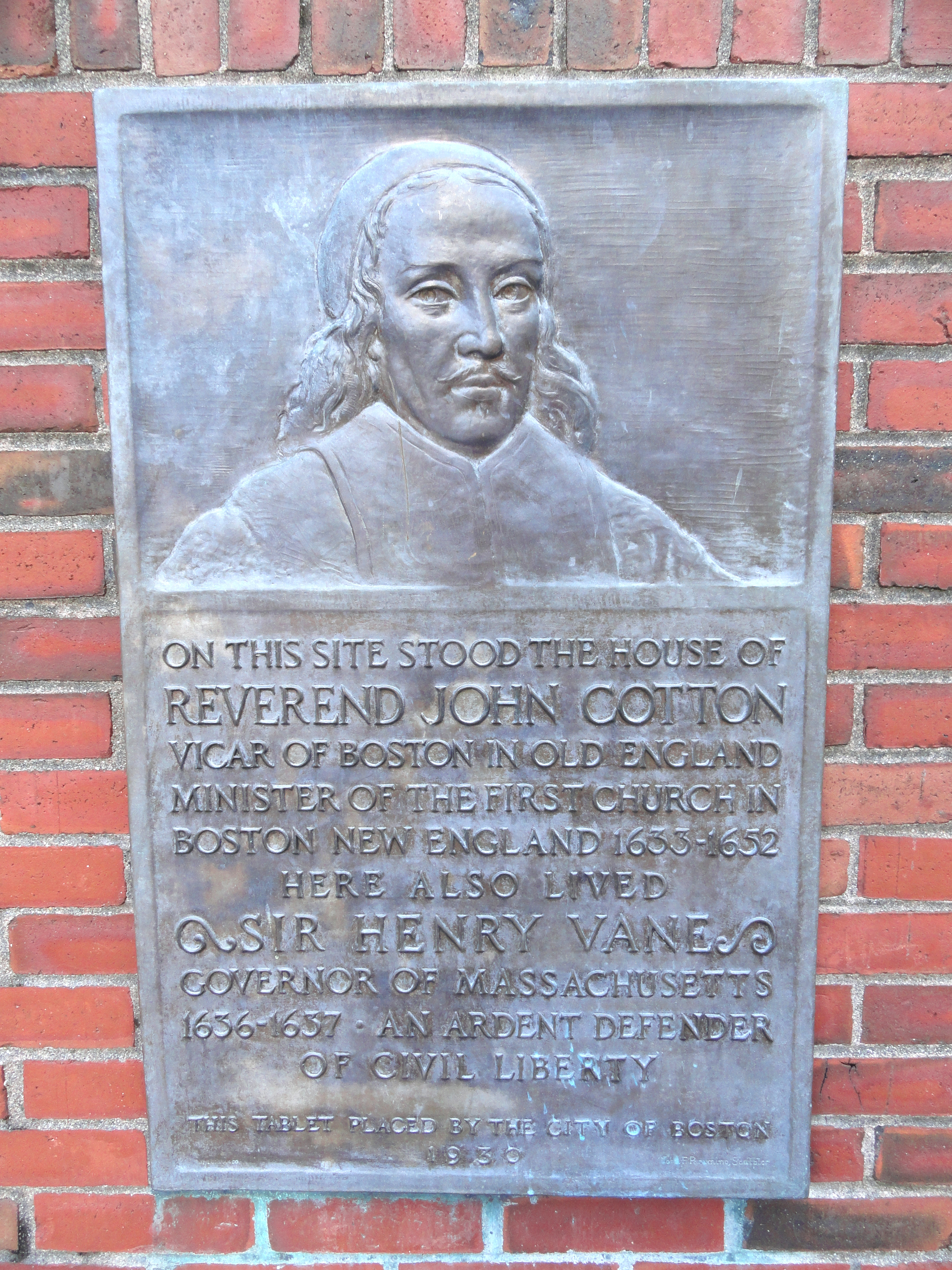 John Cotton and Henry Vane plaque, near the John Adams Courthouse, Boston, Massachusetts, USA.